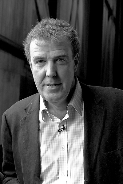 Picture of Jeremy Clarkson, on the set of Top Gear